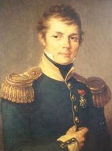 Portrait of Amédée de Failly, Belgian general and minister of War.